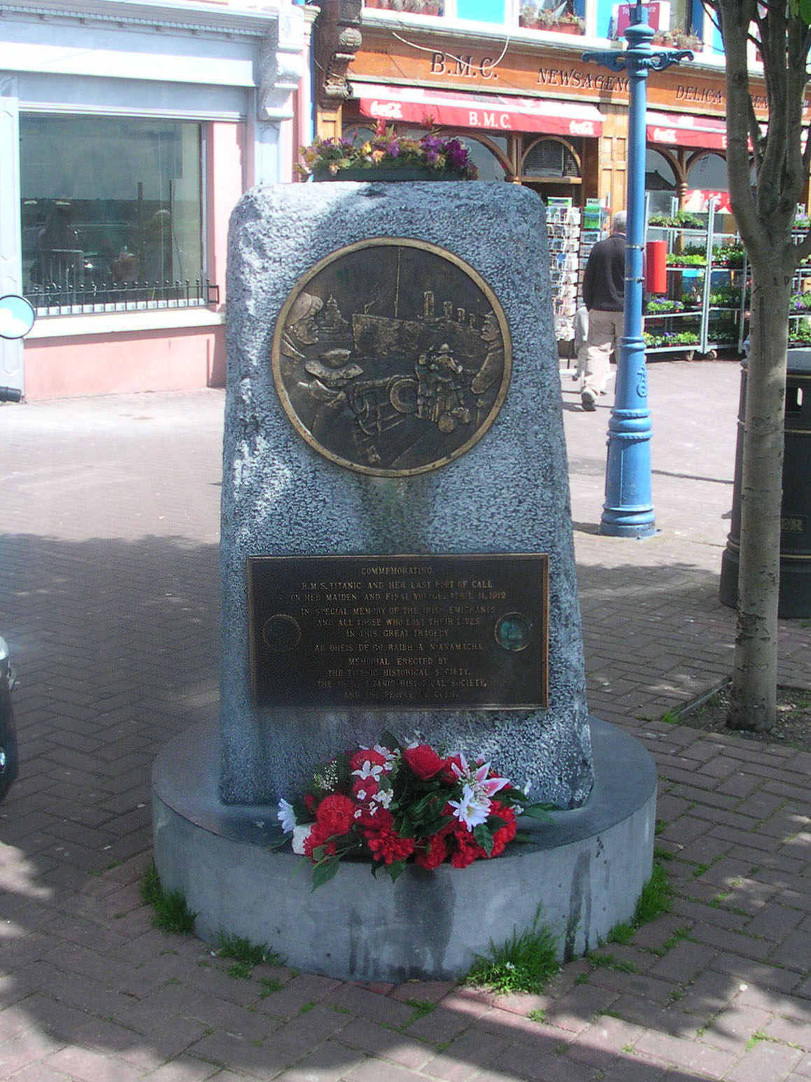 Titanic Memorial in Cobh (was Queenstown), the last port of call for the doomed ship on 11 April 1912. Erected by the Titanic Historical Society.